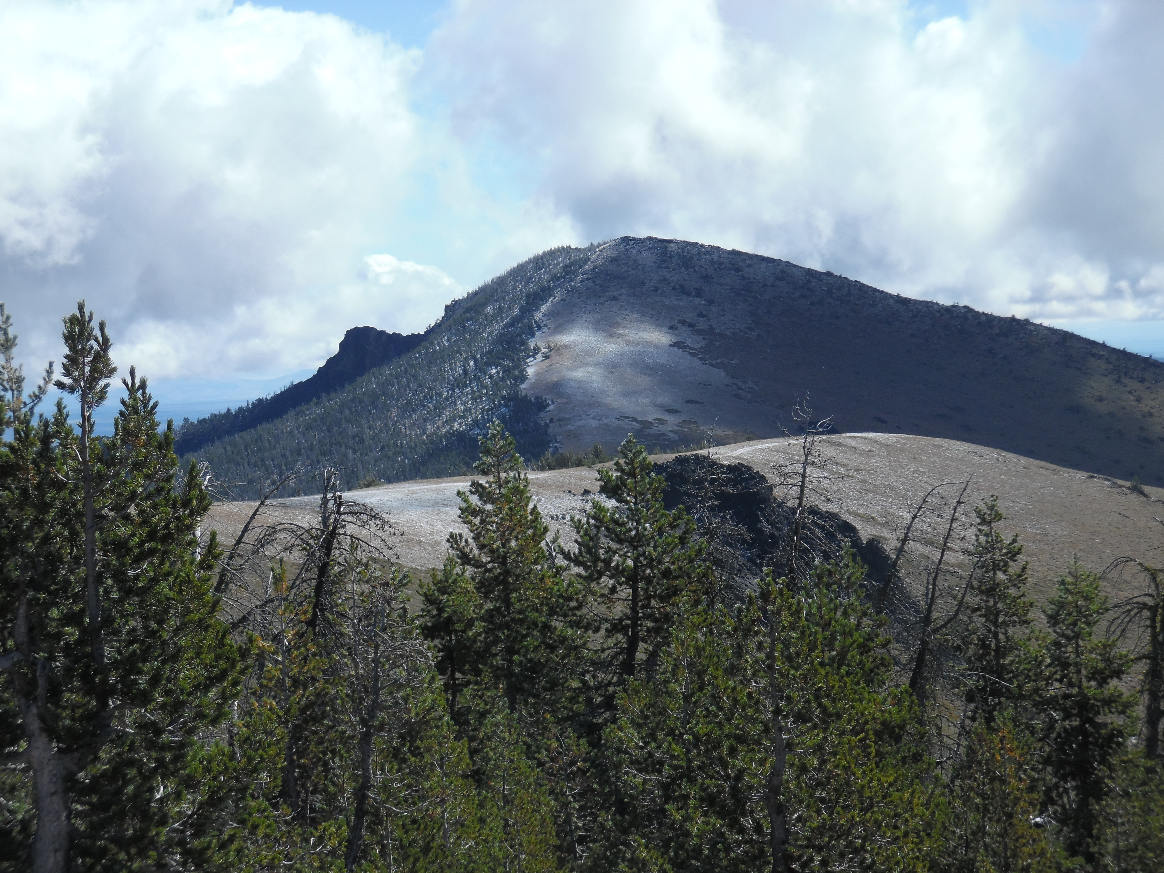 Drake Peak viewed from Light Peak; both mountains are in the Warner Mountain Range in south central Oregon